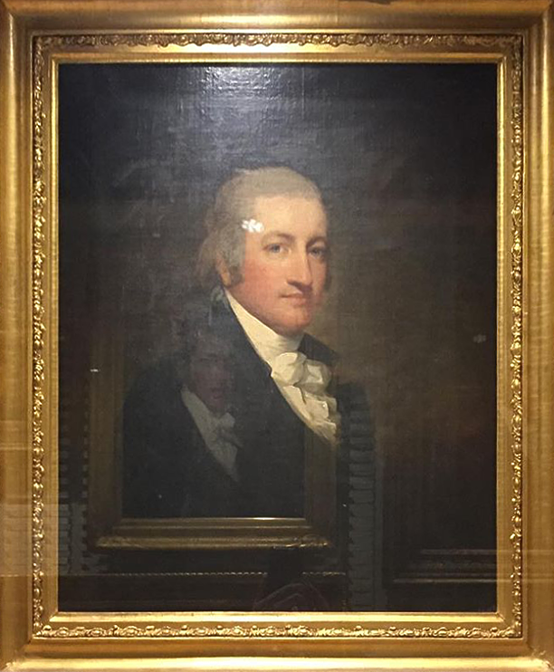 John Tayloe III, painting by Gilbert Stuart, Metropolitan Museum of Art